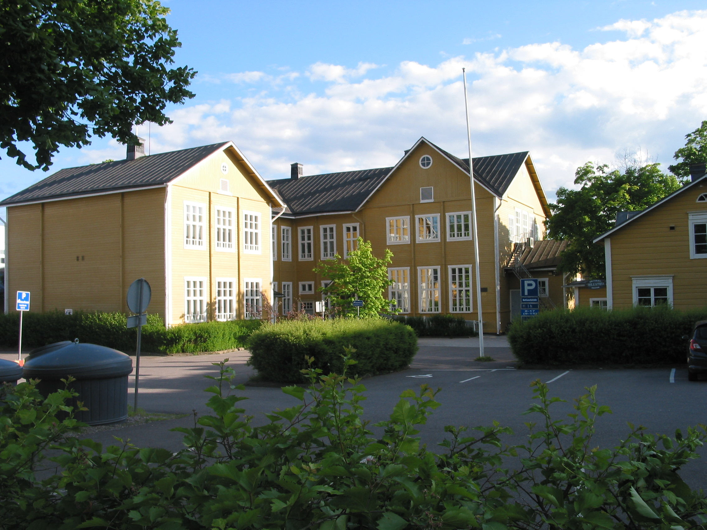 Old Anttila School, Lohja, Finland